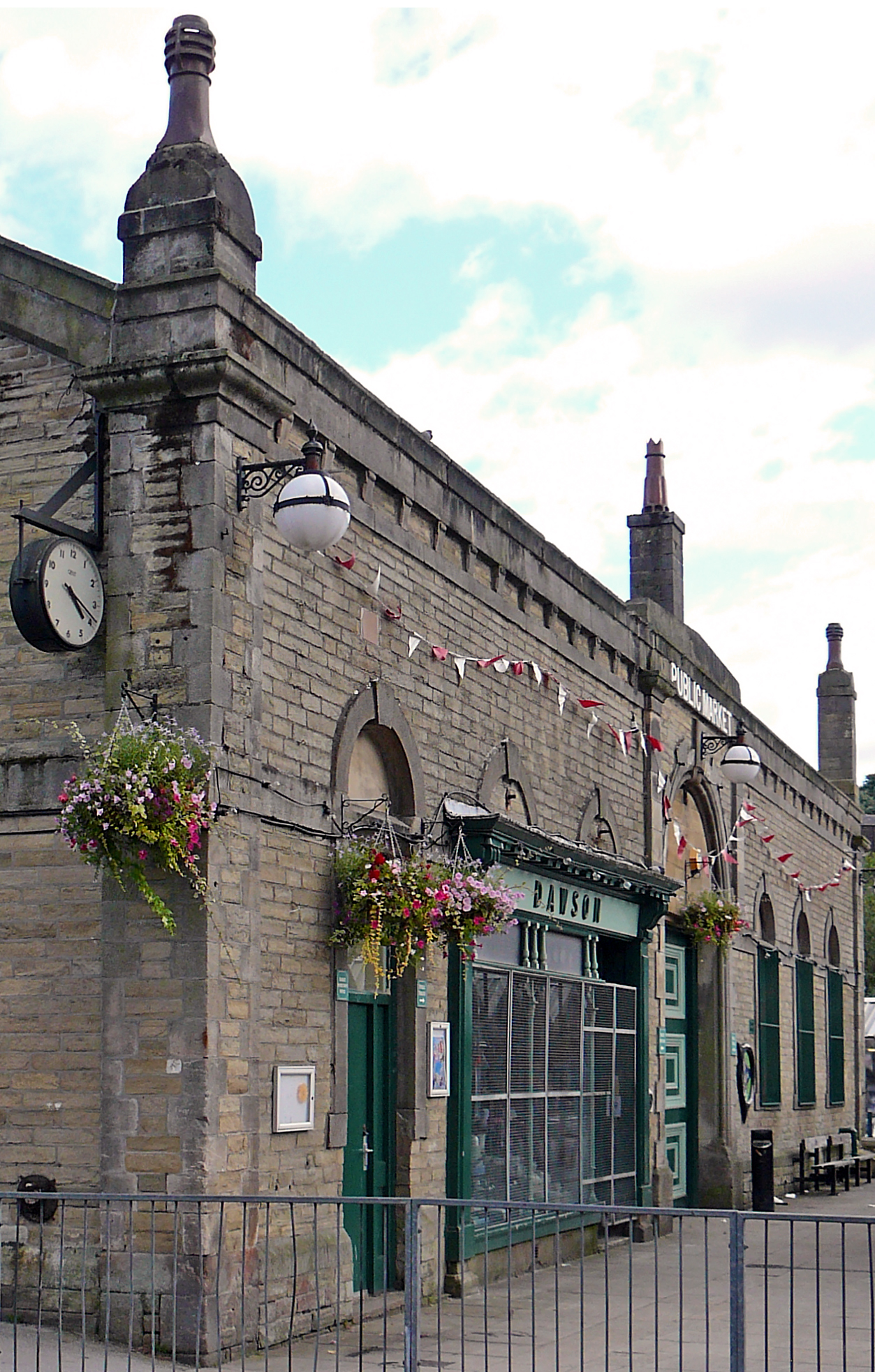 Todmorden Market Hall in Todmorden, West Yorkshire. Taken on the 29th of August 2010.